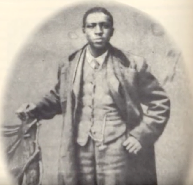 Oliver Lewis was one of the most prominent jockeys in the early years of thoroughbred racing.